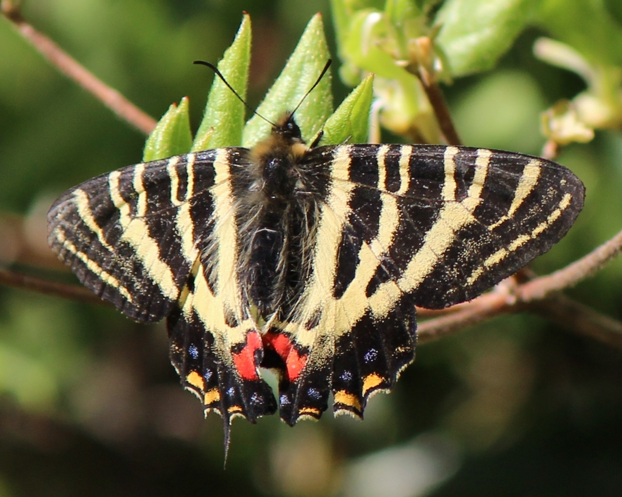 Luehdorfia japonica on Rhododendron reticulatum (Rhododendron farrerae) in Japan.